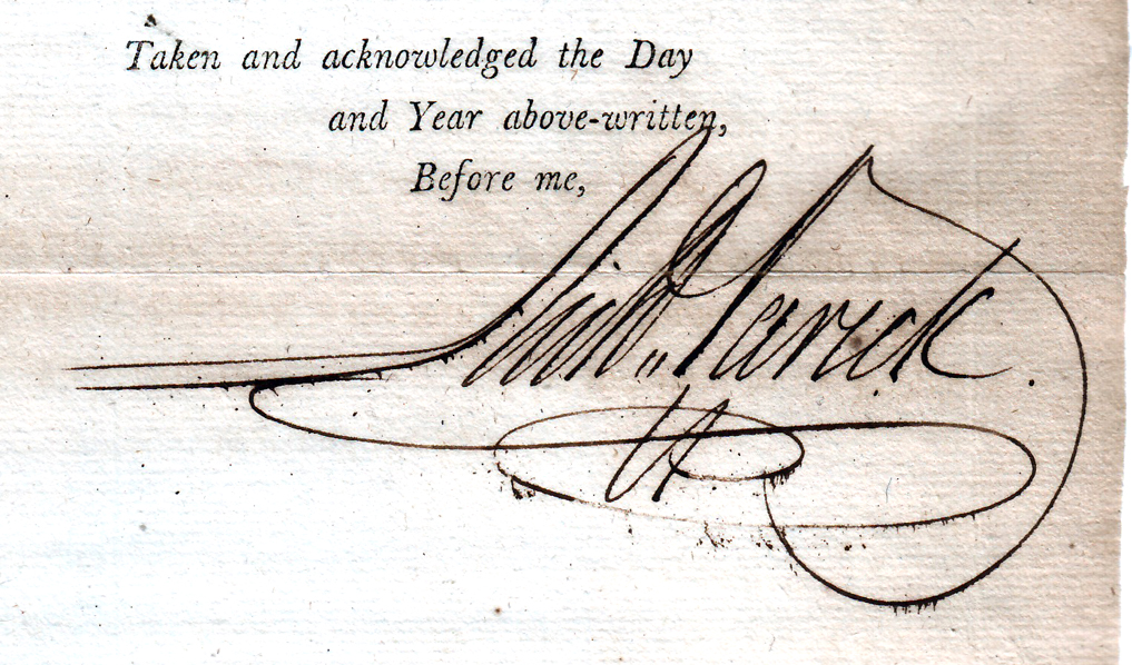 1796 signature of Richard Varick, Mayor of New York (1791-1801) The Cooper Collection of U.S. Historical Documents Photograph by uploader